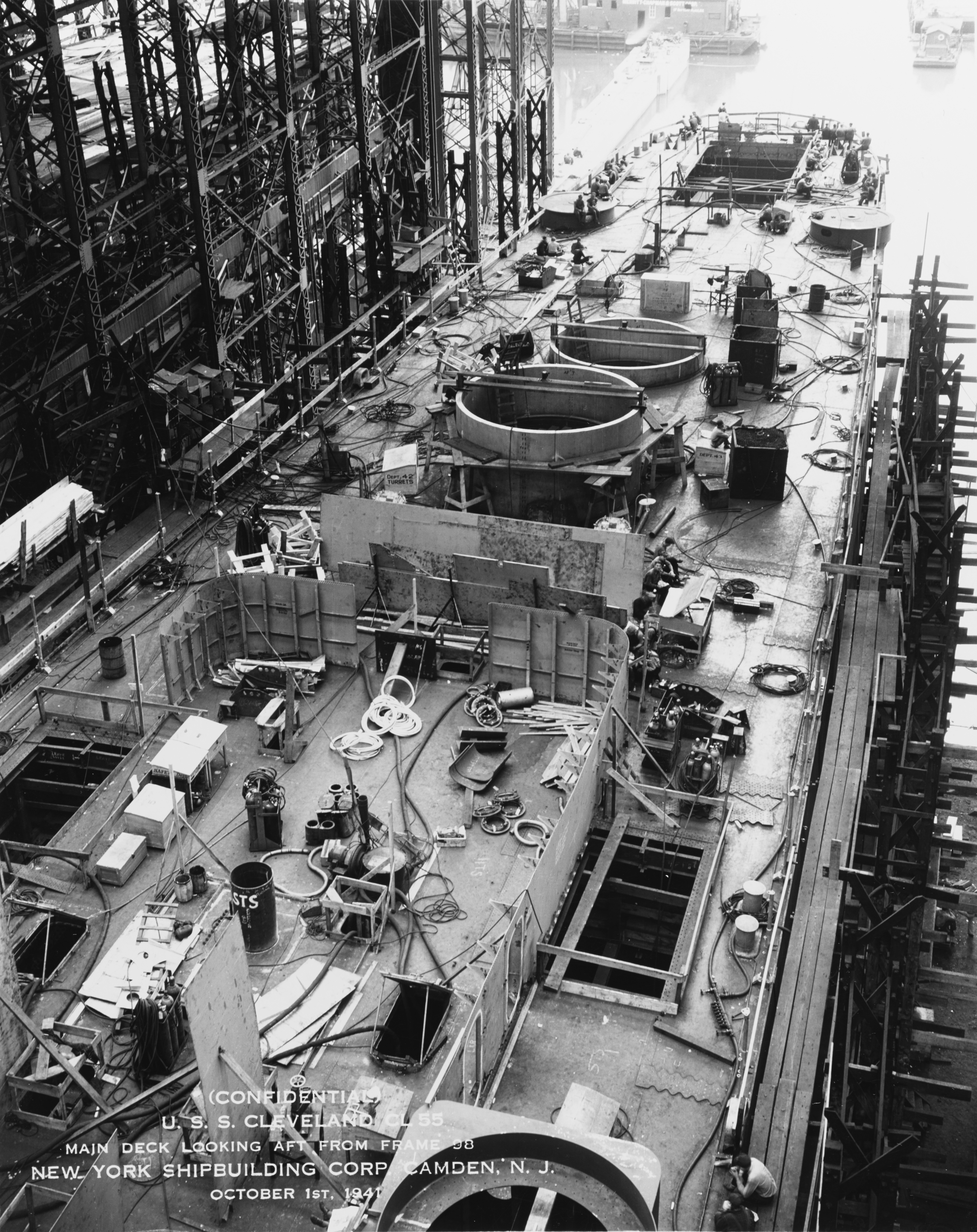 USS Cleveland (CL-55) under construction, at the New York Shipbuilding Corporation shipyard, Camden, New Jersey, 1 October 1941. She was launched one month later. This view looks aft from amidships, and shows the armored barbettes for her after six-inch gun turrets, with her aircraft hangar hatch at the stern.